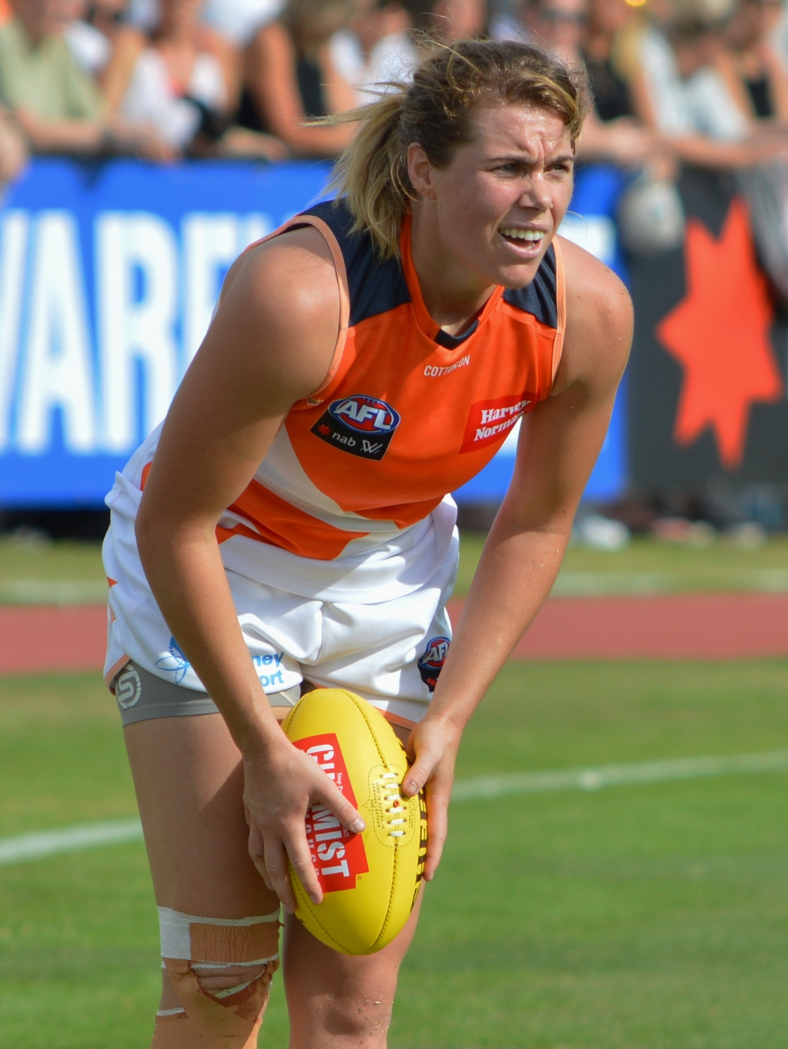 Jacinda Barclay during the round 3, 2018, AFL Women's match between Collingwood and Greater Western Sydney